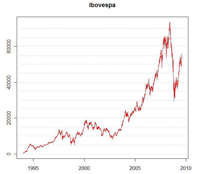 Ibovespa Index, 1994 - jul 2009, São Paulo Stock Exchange